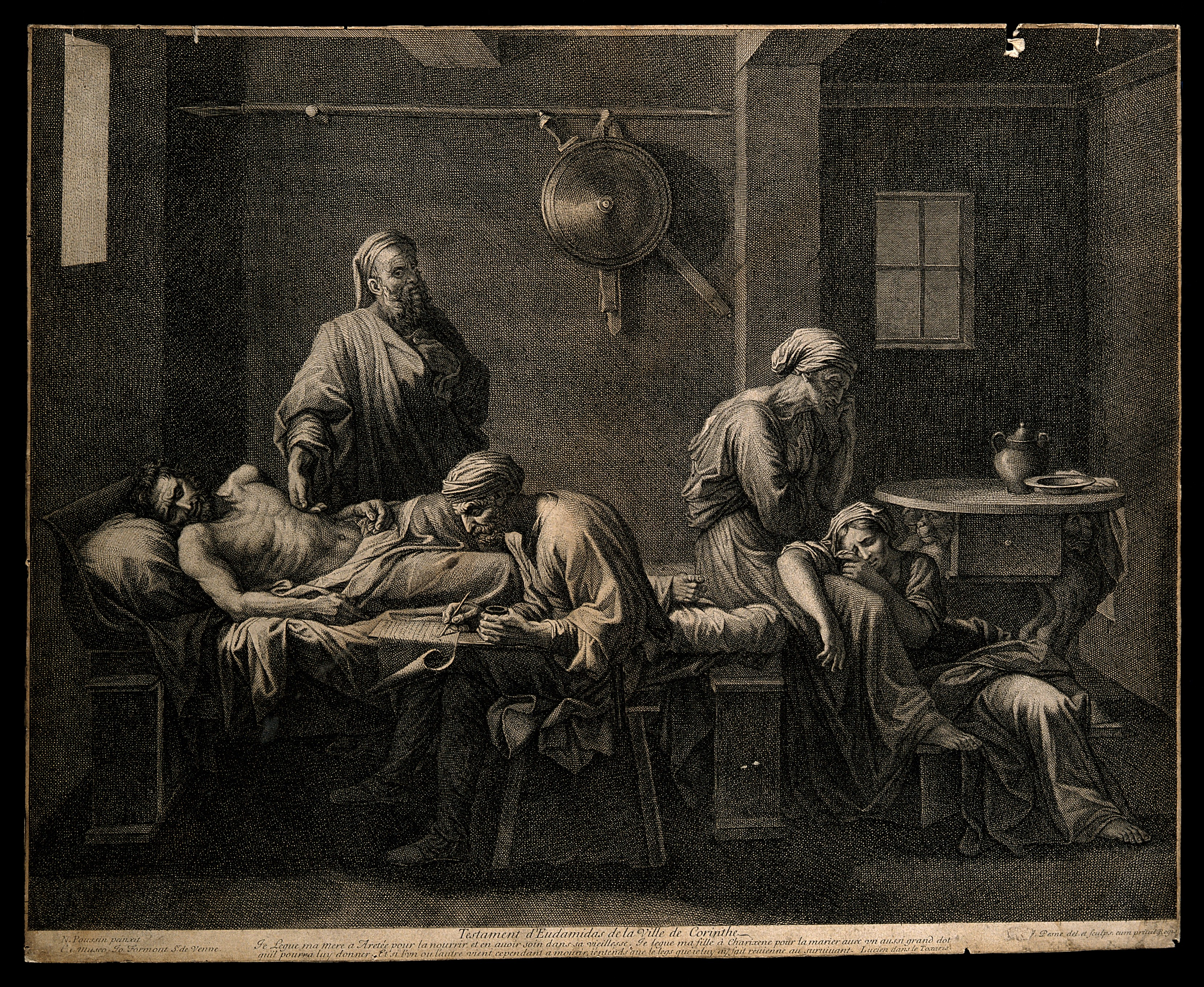 The death of Sophocles, a scribe recording his dying words. Engraving by S. Pomarede, 1748, after G. Buti. Iconographic Collections Keywords: Sophocles